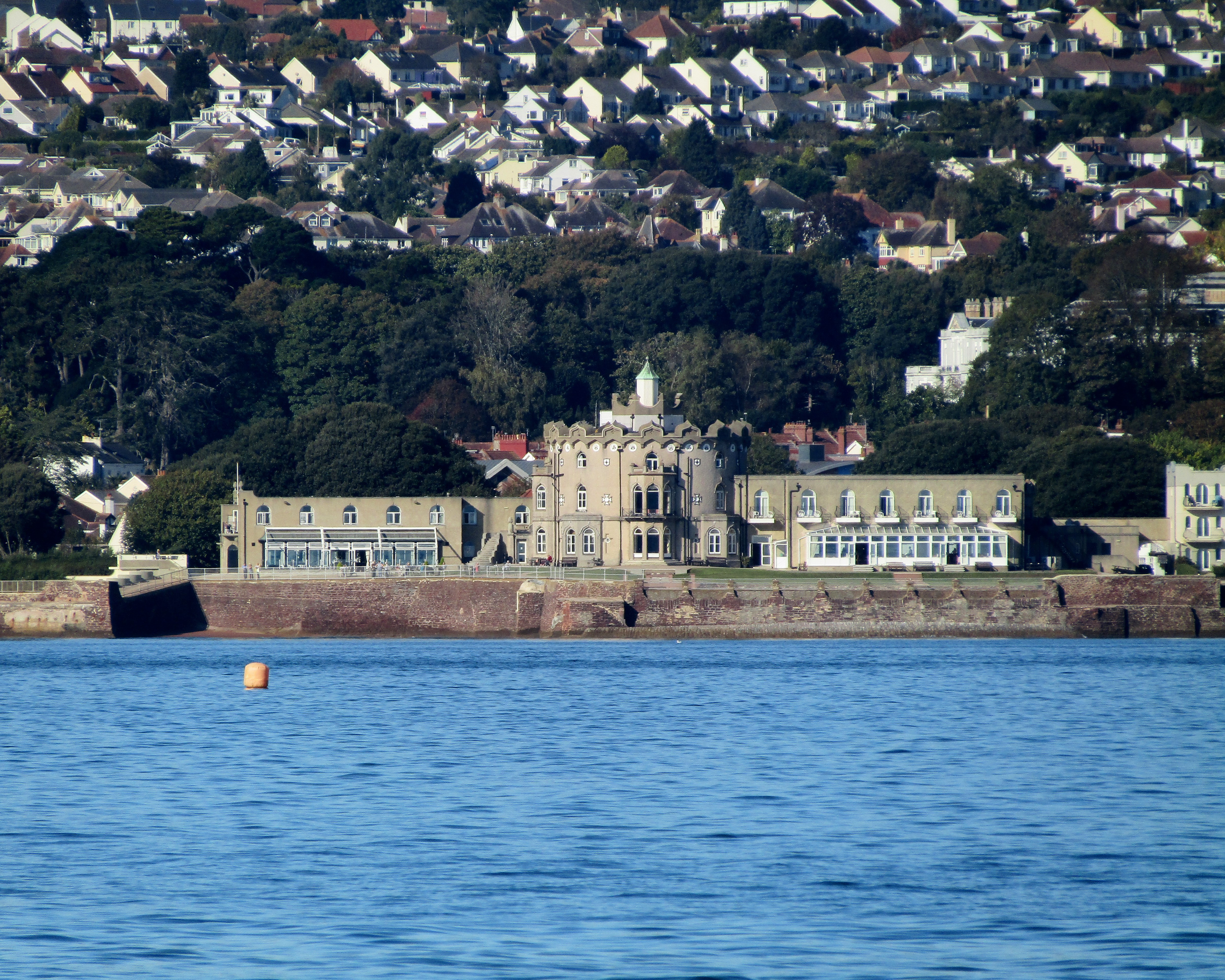 A view of the sea-facing front of the Redcliffe Hotel in Paignton, seen from the sea.